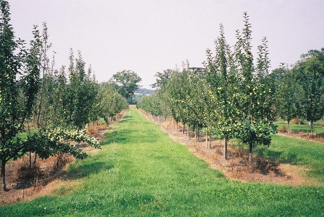 Leweston: orchard A small apple orchard in the tiny parish of Leweston, which is essentially the house that is now St. Anthony's-Leweston private school.